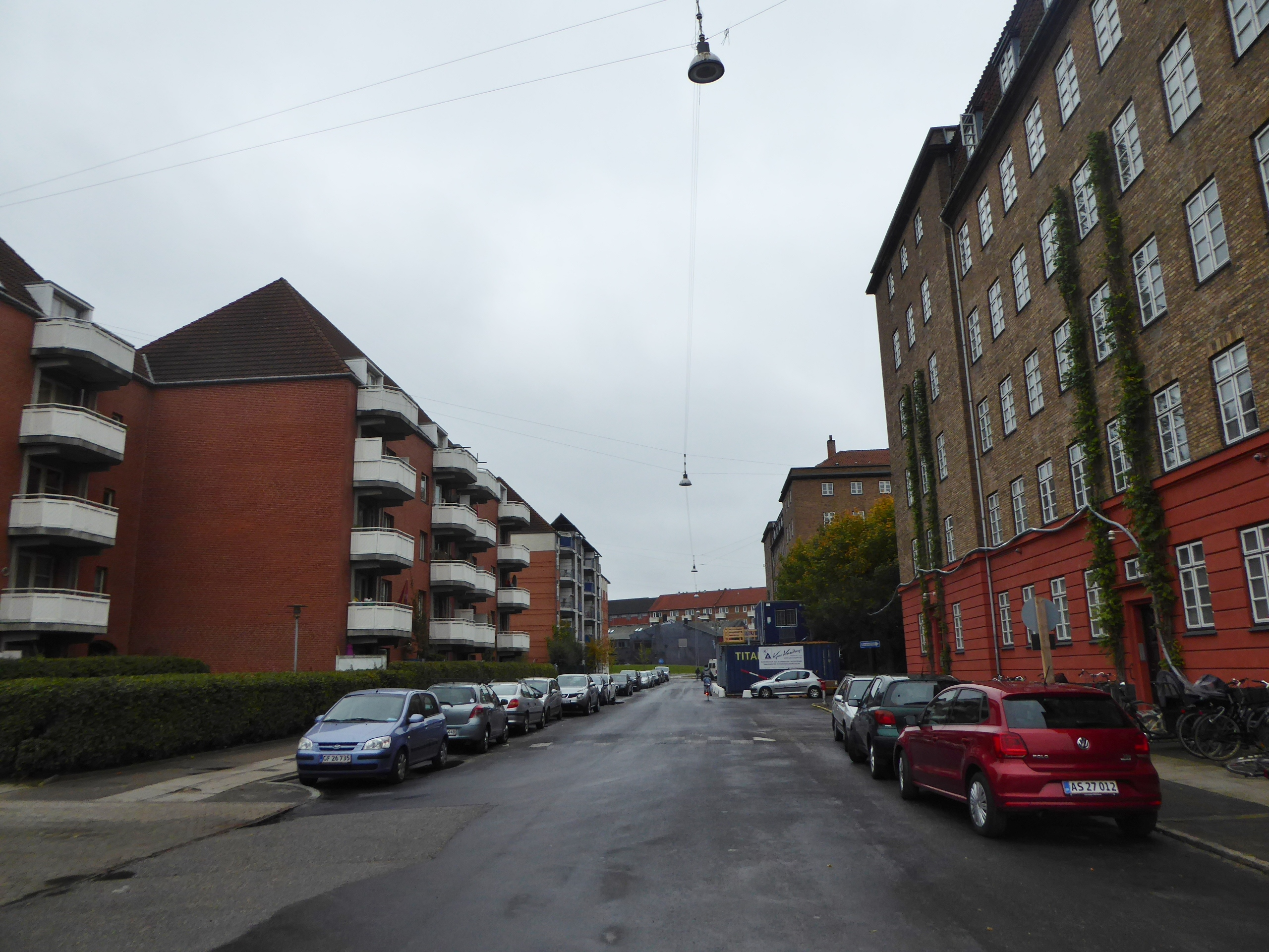 The street Hothers Plads in Nørrebro in Copenhagen. At the left apartment buildings of Mjølnerparken and at the right the housing cooperative A/B Lersøgaard.